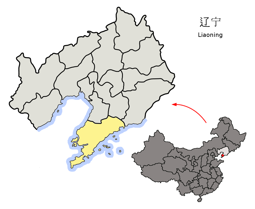 Location of Dalian Prefecture (yellow) within Liaoning Province of China Map drawn in november 2007 using various sources, mainly : Liaoning Province administrative regions GIS data: 1:1M, County level, 1990 Liaoning Counties map from